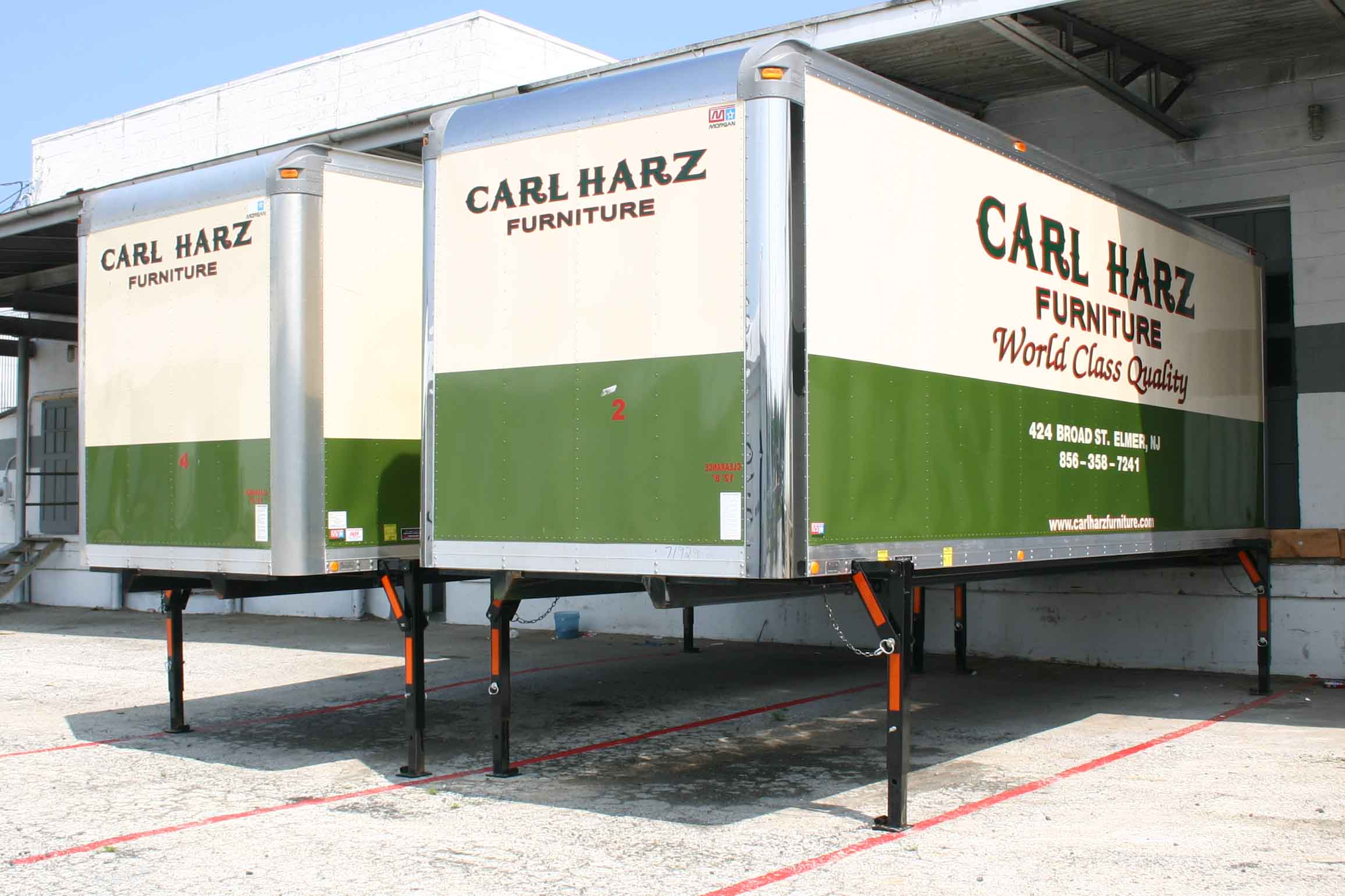 Demountable Truck Body